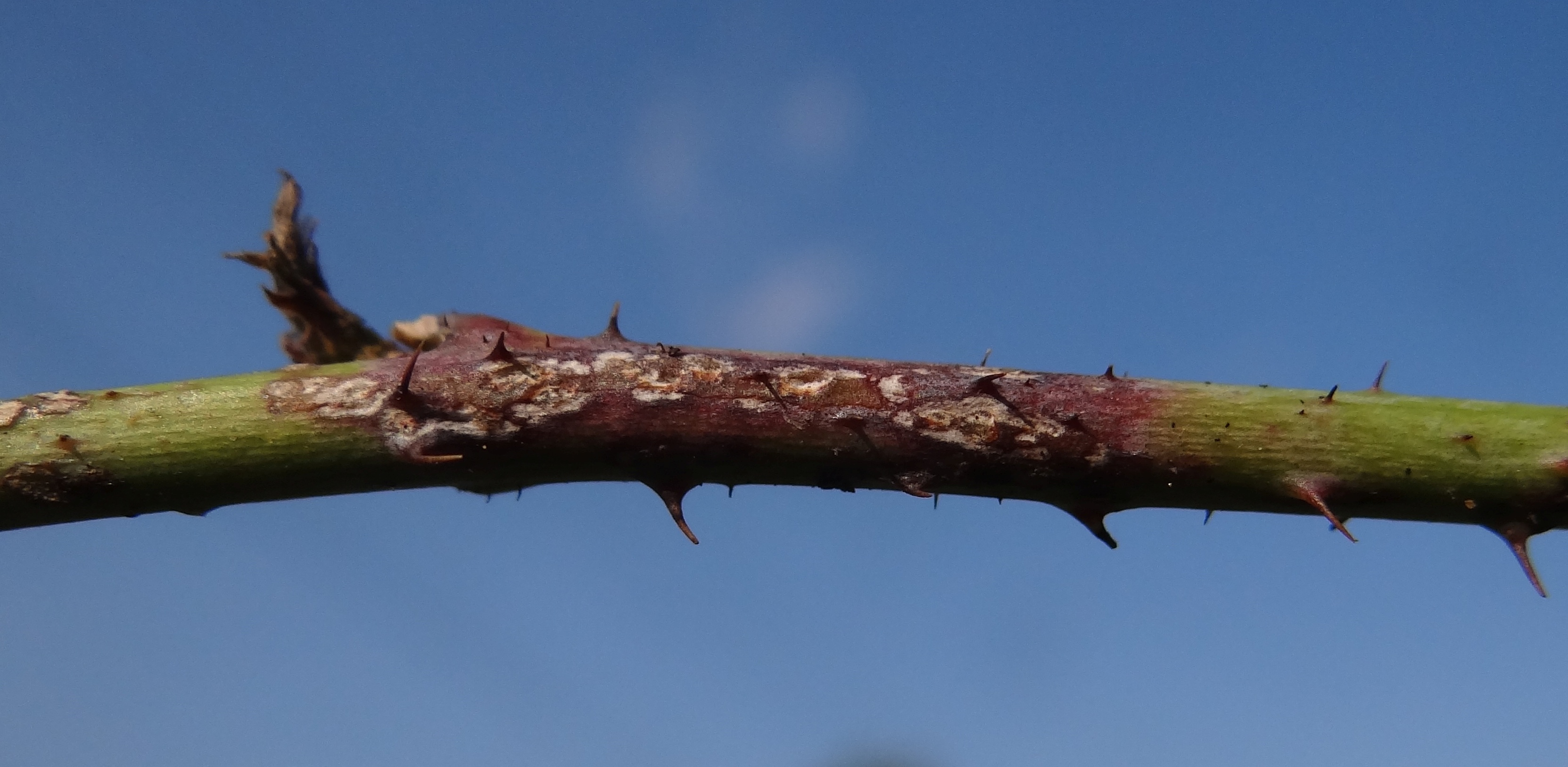 Elsinoë veneta on Rubus sp. (location: Poland, Żegocina)